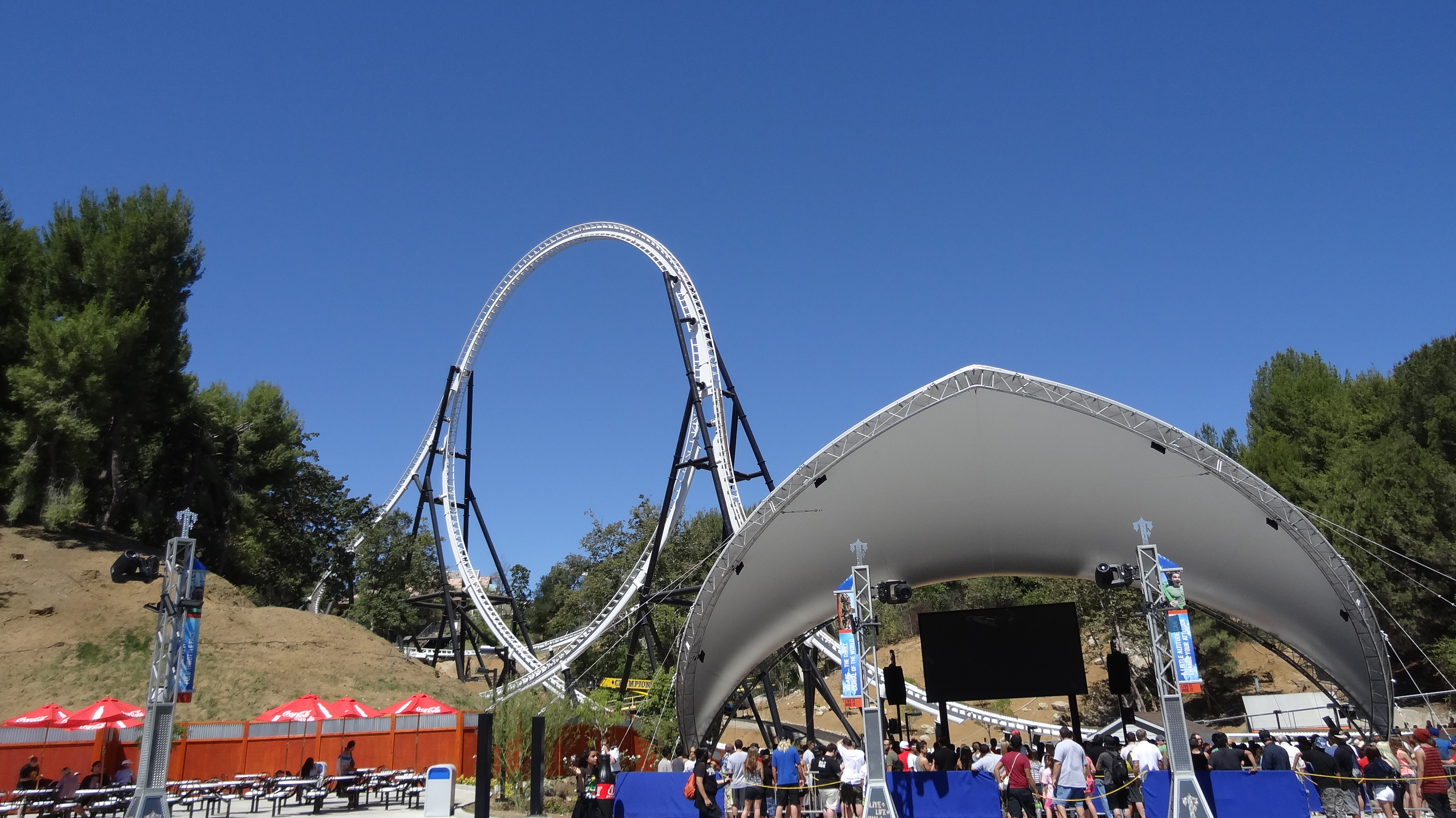 Full Throttle's main entrance.